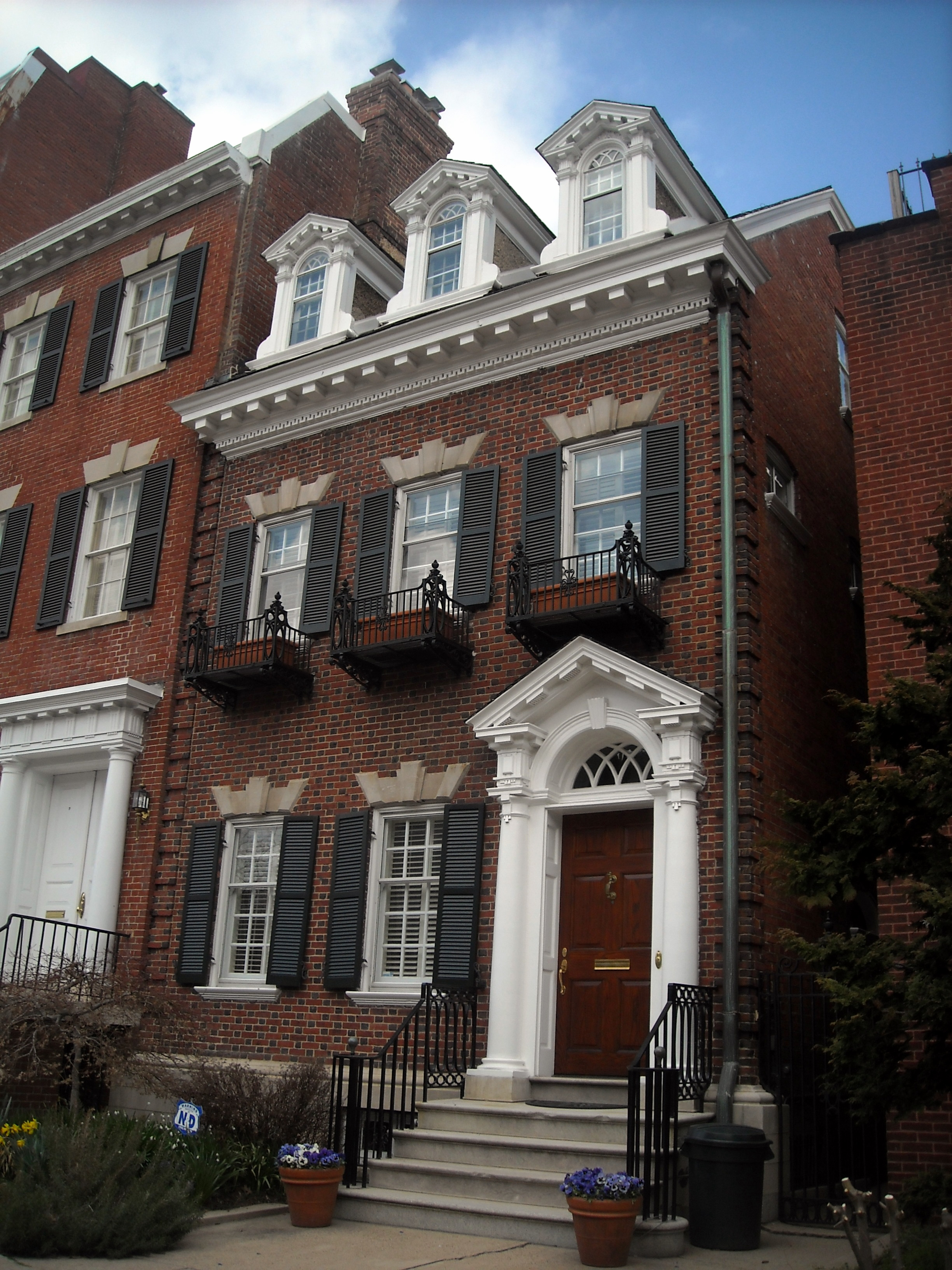 The former home of Theodore Frelinghuysen Jewell located at 2135 R Street, NW in the Sheridan-Kalorama neighborhood of Washington, D.C. Designed by Waddy Butler Wood in 1900, the Georgian Revival style building is a contributing property to the Sheridan-Kalorama Historic District. Additional past owners include Milton D. Purdy and Walter Trohan.